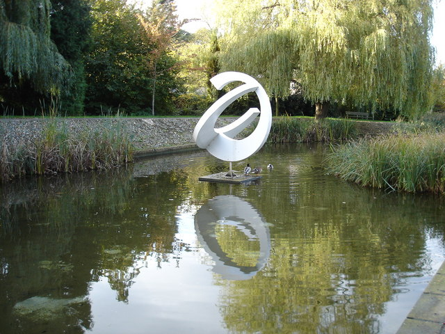 Water Gardens in Harlow Town Park The sculpture is Pisces by Jessie Watkins.